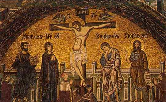 Mosaic in baptistery of San Marco - "Crucifixion of Jesus Christ"